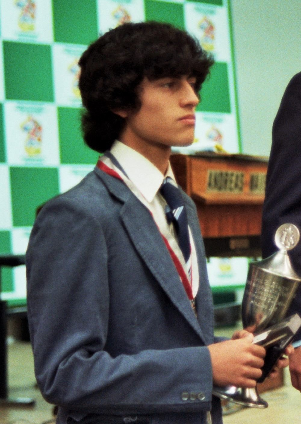 Ivan Morovic, Junior Chess World Championship 1980 at Dortmund, Photographer Gerhard Hund.